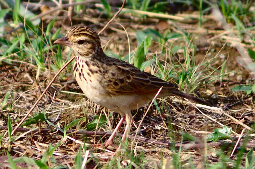 Paddyfield Pipit in Laharpur Ecological Park, Bhopal